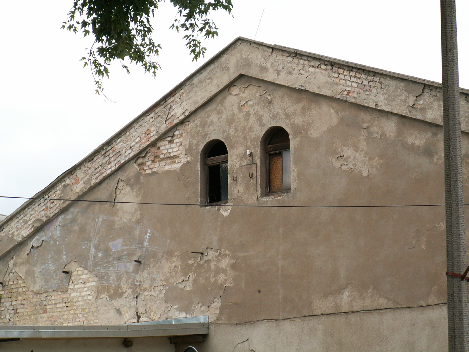 Merchants Synagogue in Trzebinia